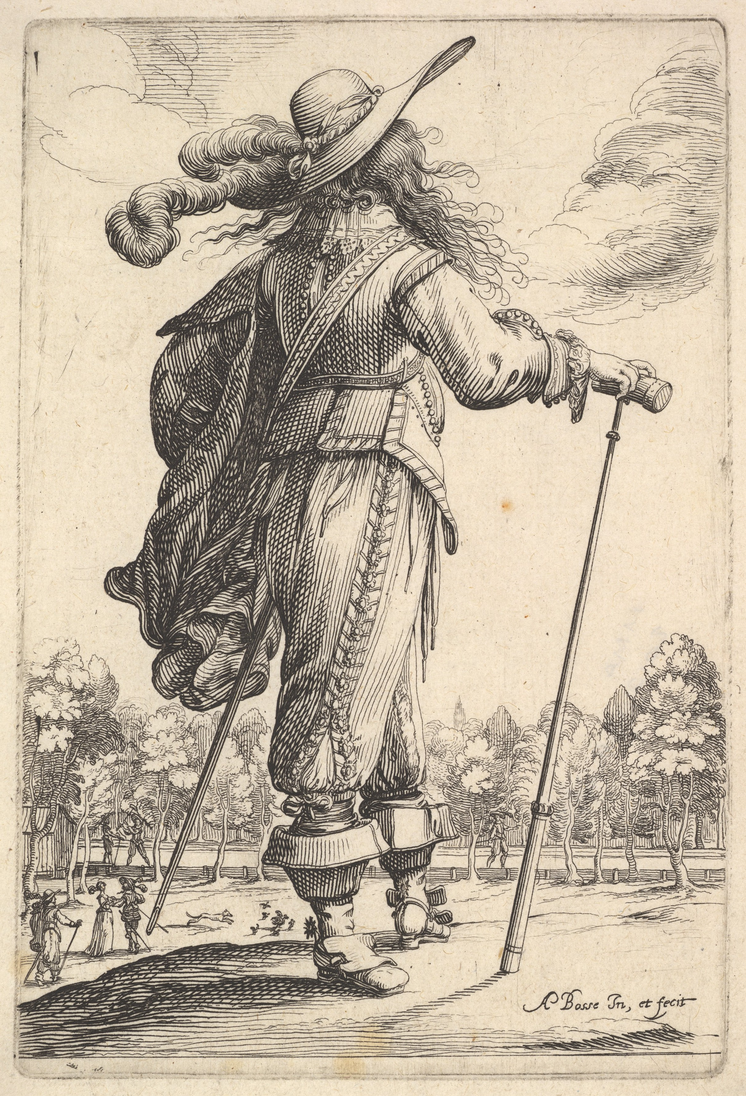 Print; Prints